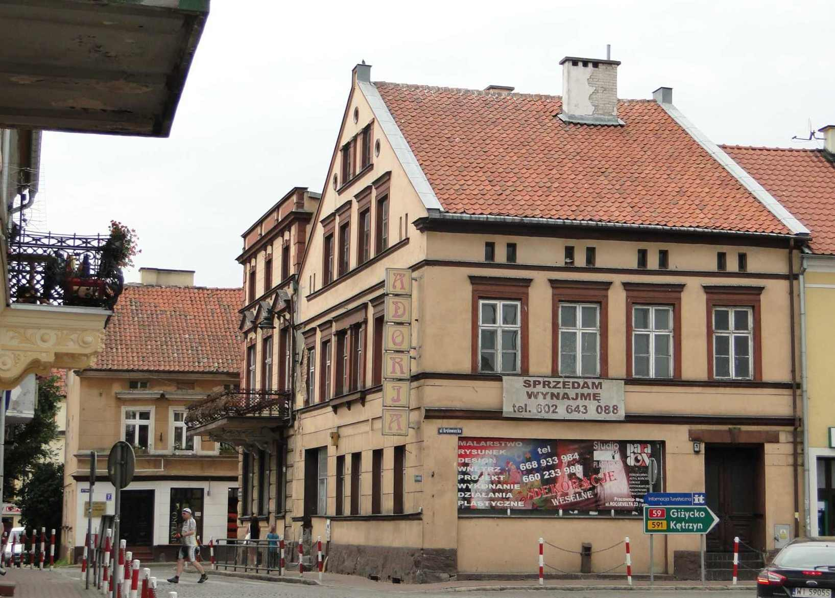 Krolewiecka street and Mały Rynek, Mrągowo, Poland.